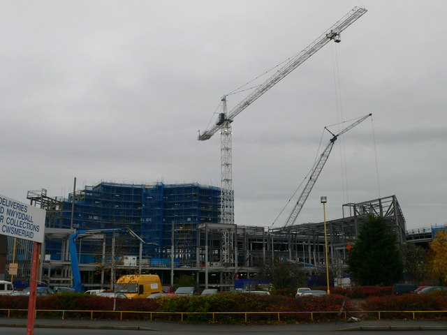 Eagles Meadows, Wrexham New development in the centre of Wrexham being built on the site where the Asda supermarket and the outdoor market stood.